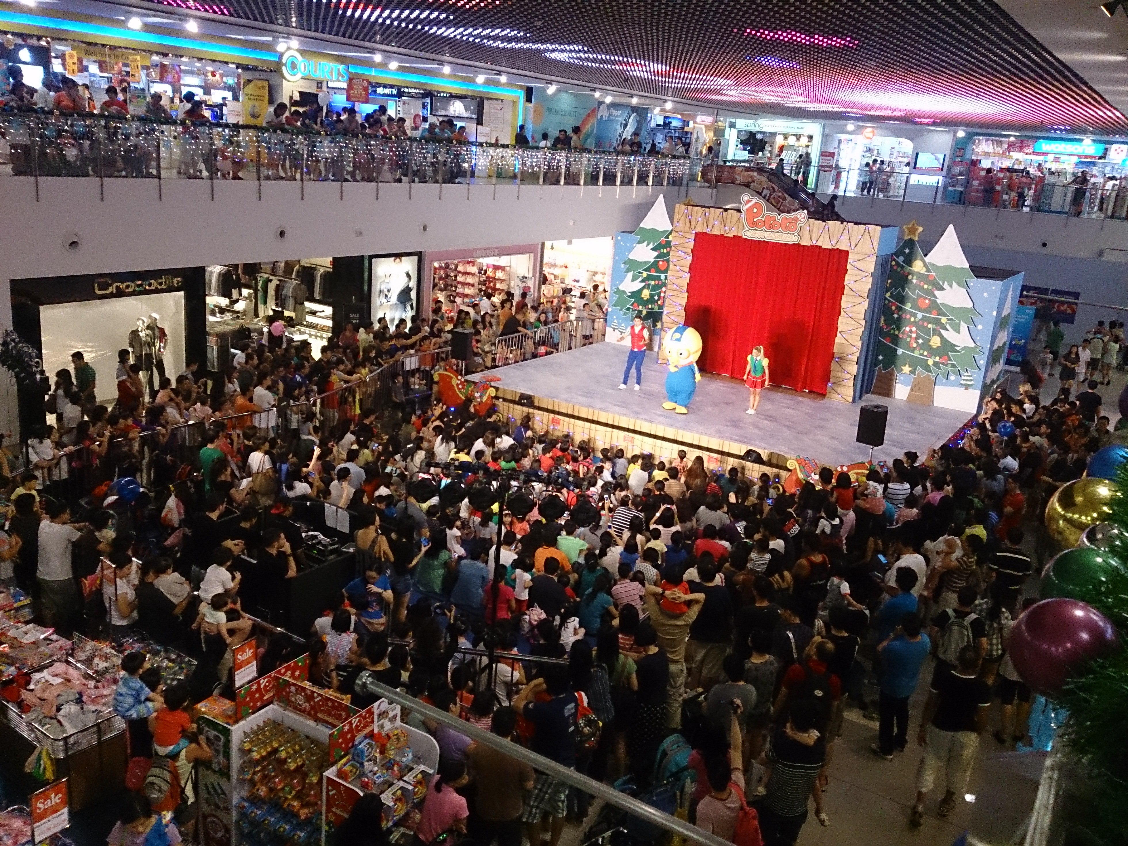 A Christmas show featuring Pororo the Little Penguin at Nex, Singapore.